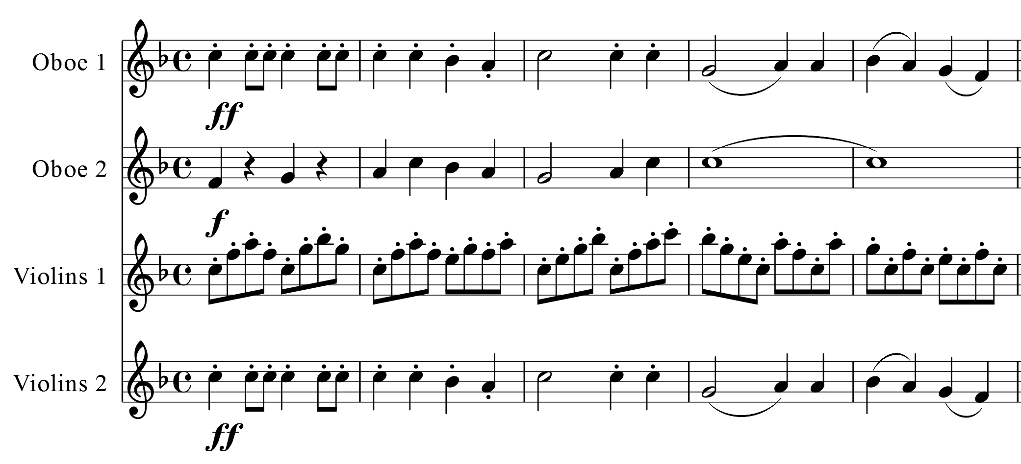 Joseph Haydn, Symphony No. 26, first movement, bar 17-21